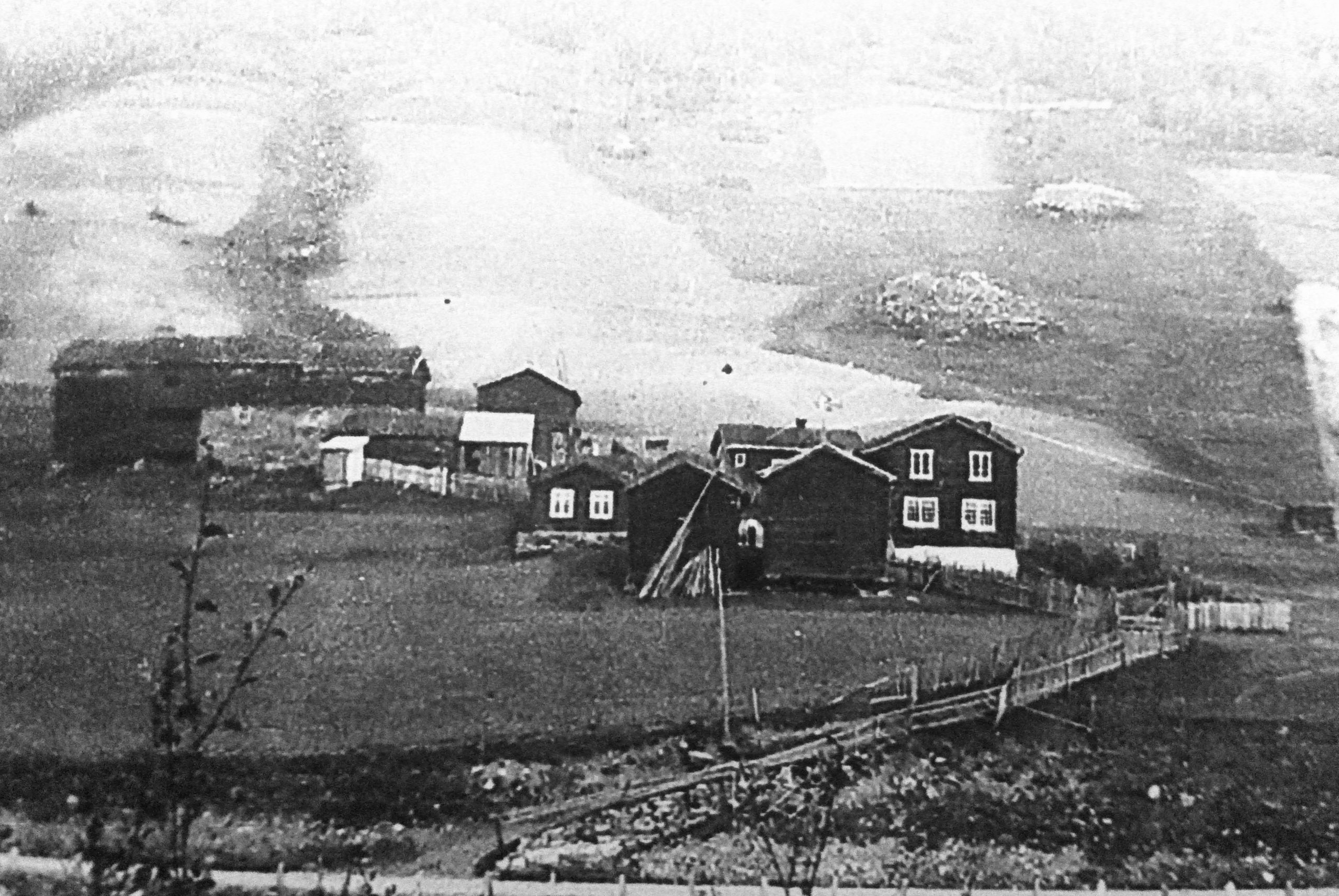 The Nordre Ekre farm, Heidal, Norway, from SW. The photo dates from the early 1900s - as the northern house has not yet been rebuilt